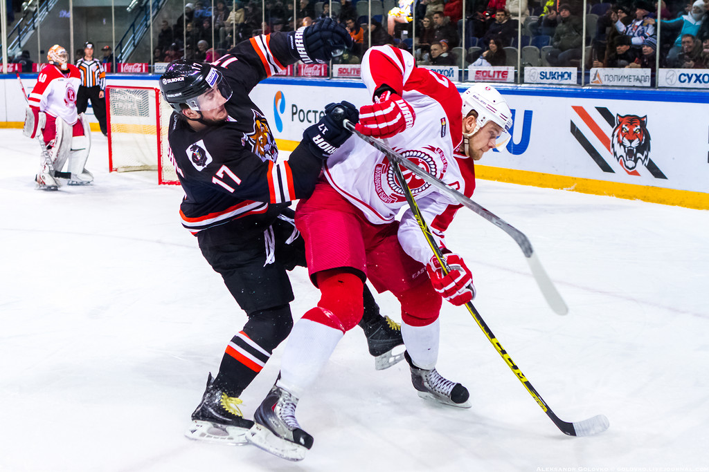 HC Vityaz forward Vyacheslav Solodukhin (in white) and Amur Khabarovsk forward Vladimir Pervushin during KHL game on January 31, 2016.